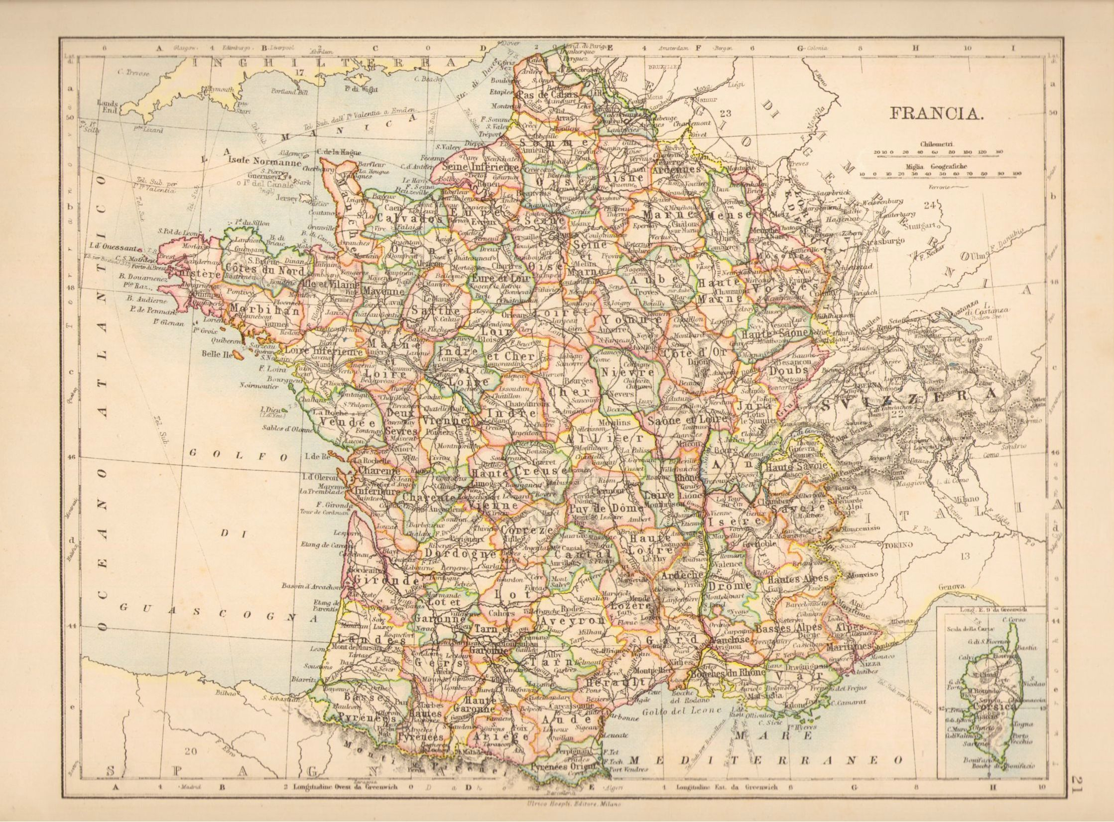 France from "Atlante Mondiale Hoepli" by Giovanni Roncagli (1857-1929)